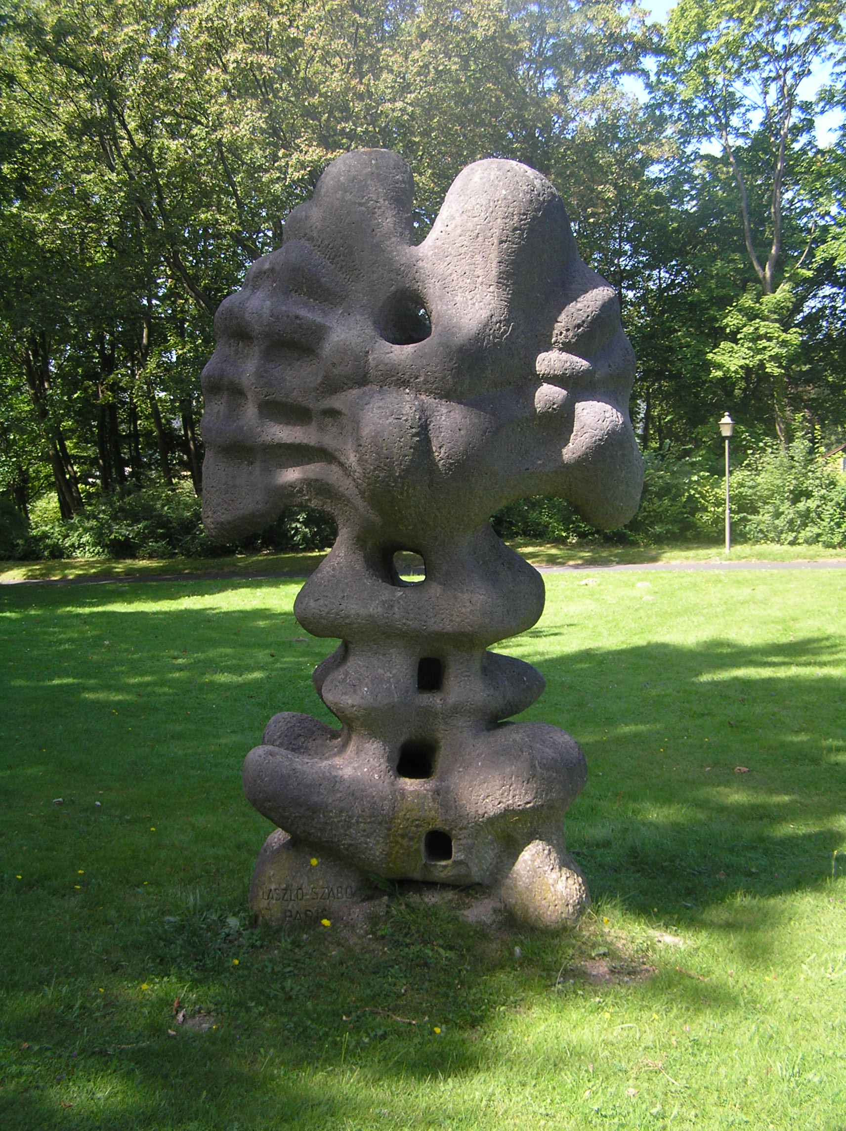 Königstein im Taunus, Sculpture (1975) of László Szabó (1917-1984), in the park of Villa Rothschild